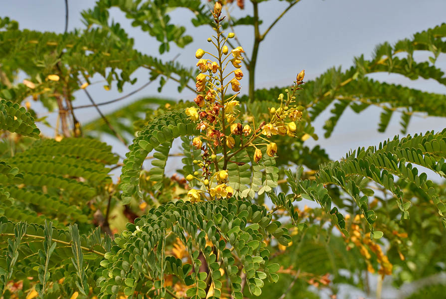 Caesalpinia sappan L. (syn. Biancaea sappan (L.)Tod.)- Sappanwood, Sapanwood, Bukkum-wood, Bois Sappan, Gangoor, Caesalpinia Sappan, Patamg, Bakam, Suou (Japanese); Burmese (teing-nyet); English (false sandalwood, Indian brazilwood, Indian redwood); Filipino (sapang, sibukao); French (bois de sappan,sappan); Hindi (bokmo, bakan, patungam, vakum, vakam, patunga); Indonesian (soga jawa, secang, kayu sekang, kayu cang); Javanese (soga jawa); Lao (Sino-Tibetan) (fang deeng, faang); Malay (sepang); Thai (ngaai, faang, fang som); Trade name (sappan lignum, brazilin, sappanwood); Vietnamese (tô môc,hang nhuôm)- in Herbal Garden, in Rangareddy district of Andhra Pradesh, India.